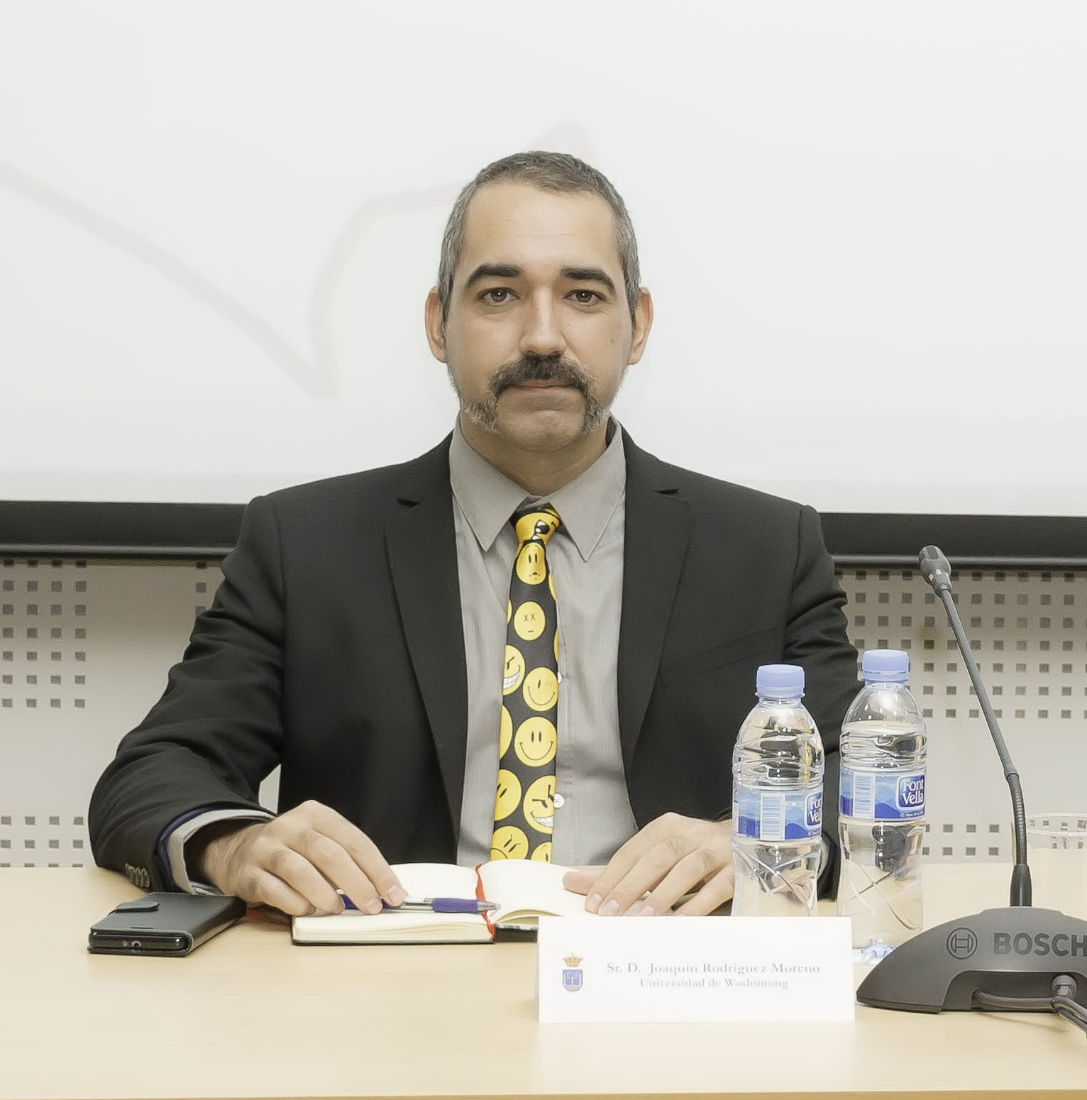 The historian José Joaquín Rodríguez Moreno lecturing in November 2015.